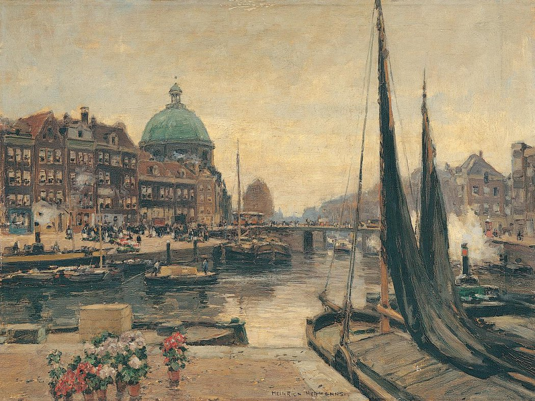 View of Amsterdam, Pushkin State Museum